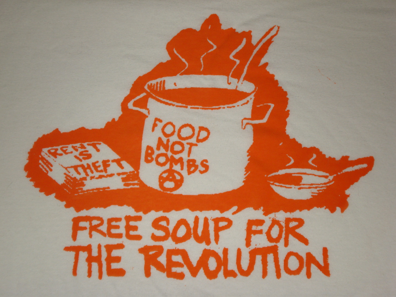 Food Not Bombs illustraion